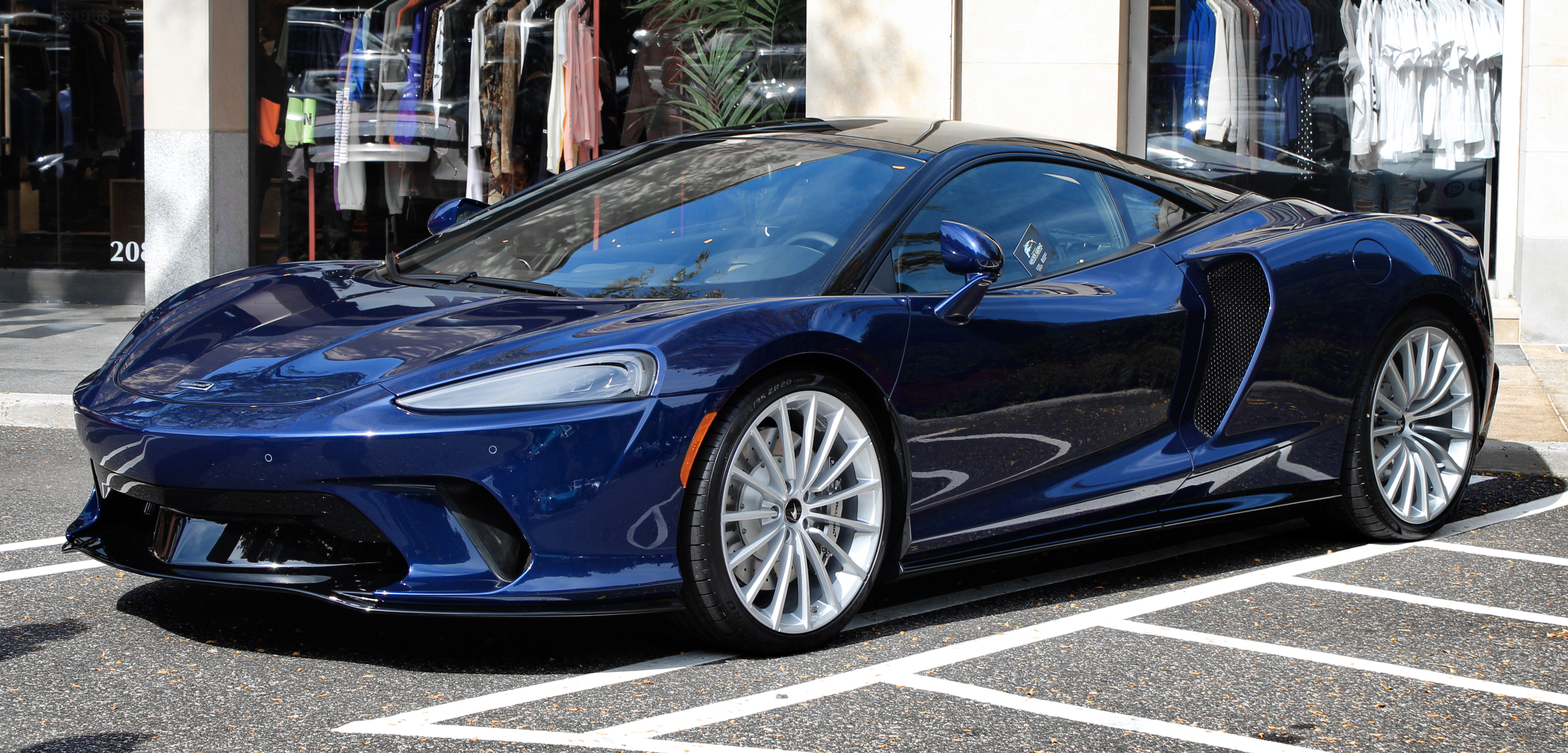 A 2020 McLaren GT in Kyanos Blue, photographed during the 2019 Americana Manhasset Concours d'Elegance, in Americana Manhasset, Manhasset, New York, USA